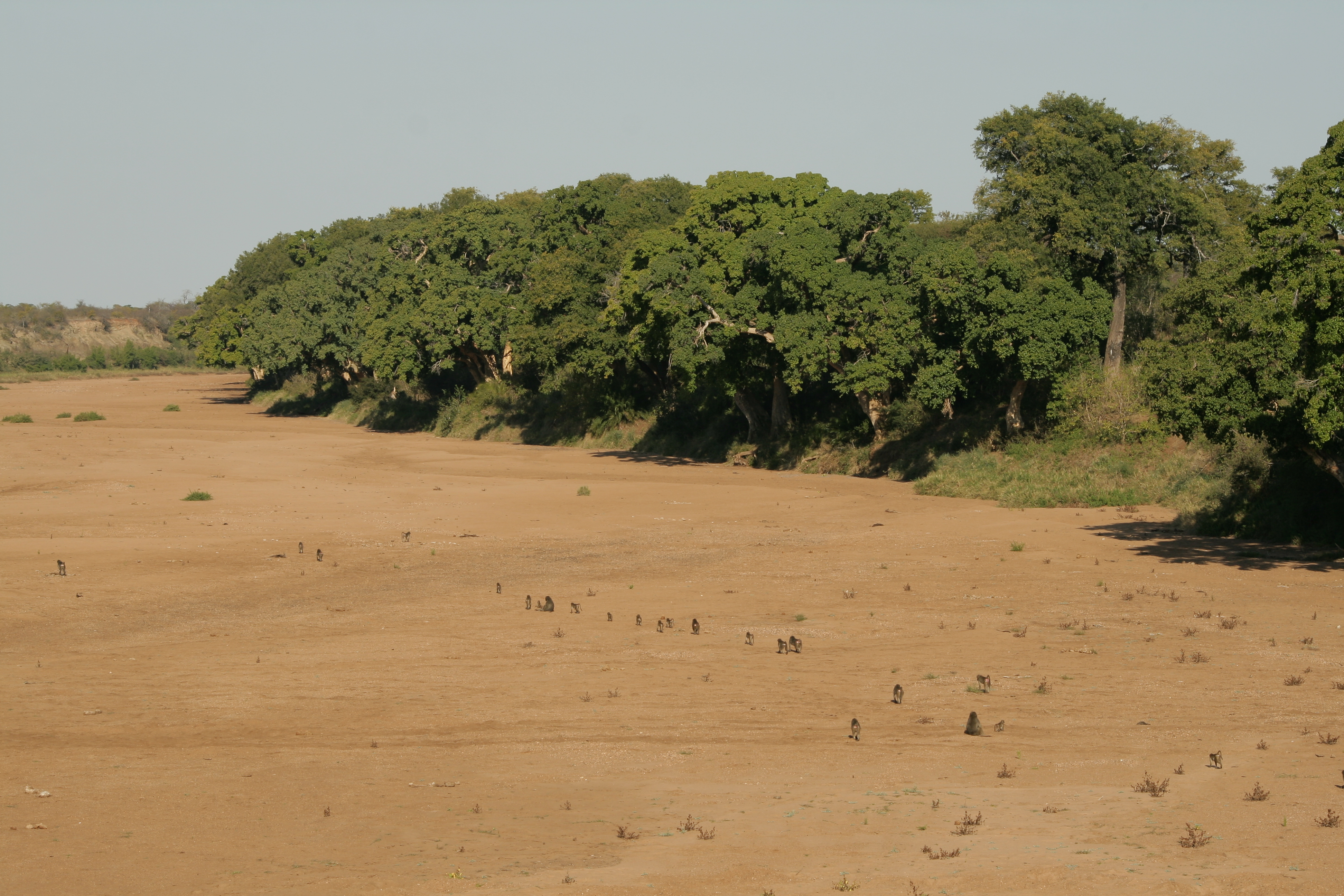 A troop of Chacma baboon (Papio ursinus) crossing the dry bed of the seasonal Shingwedzi River in the Kruger National Park